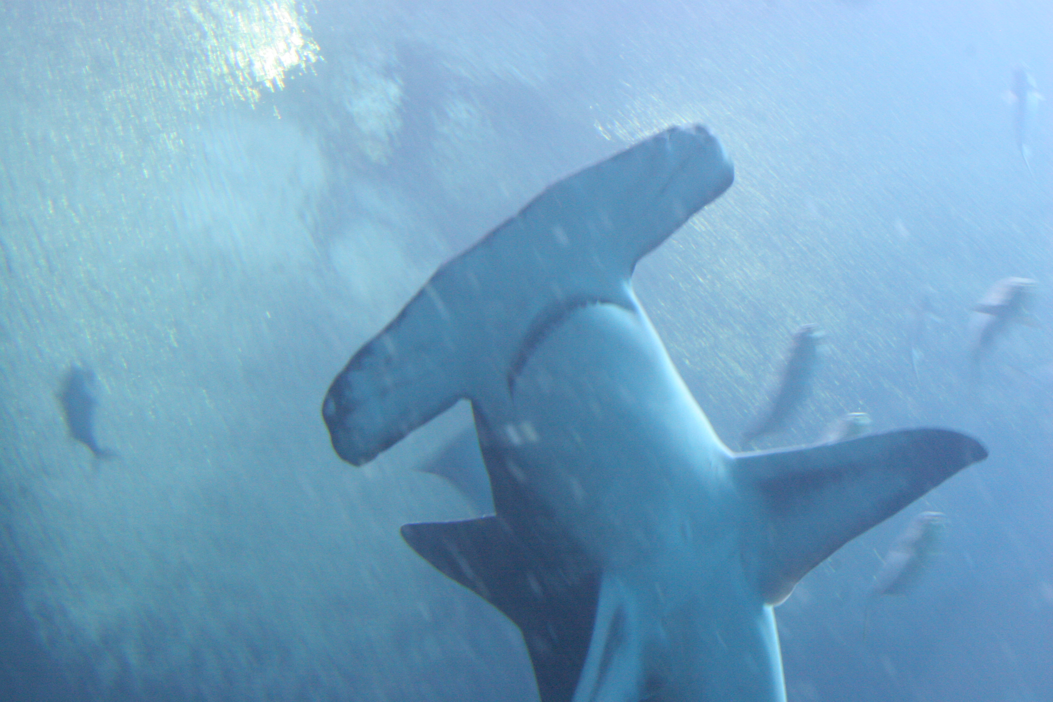 Great hammerhead (Sphyrna mokarran) at the Georgia Aquarium